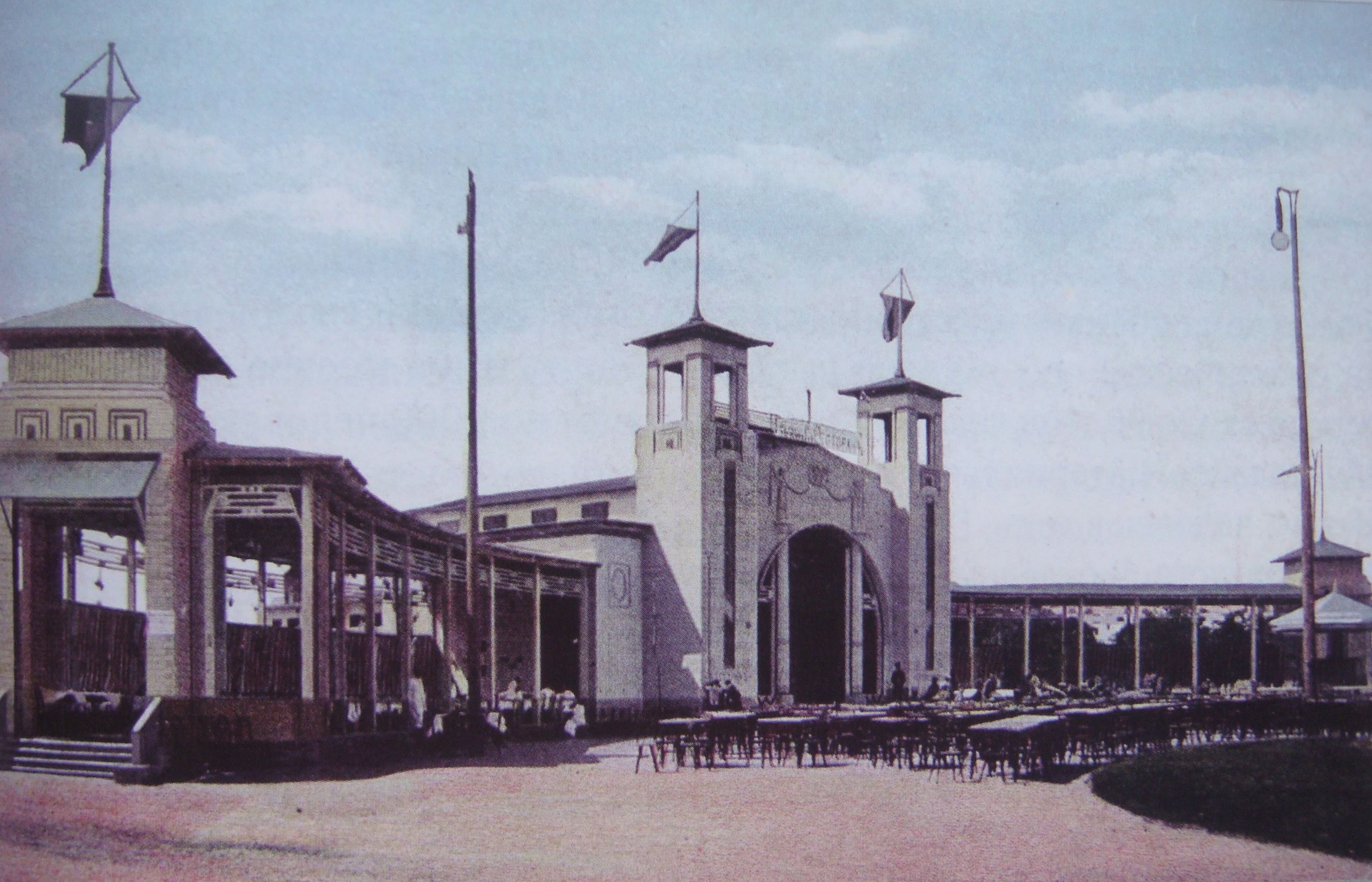 Carte Postale (Open Letter) with view of Main Restaurante of Odessa Art & Industry Exposition, 1910